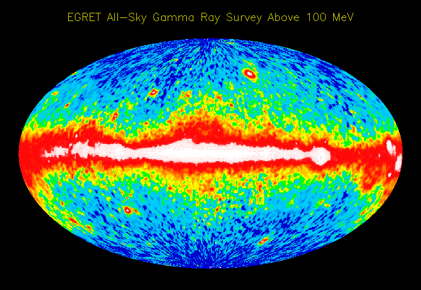 The EGRET sky map of the gamma-ray sky above 100 MeV